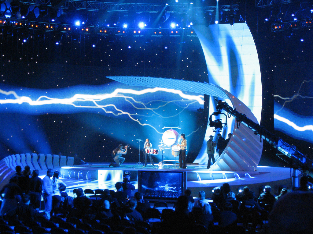 Elitsa Todorova & Stoyan Yankulov -- Water during rehearsal for their performance on Eurovision 2007